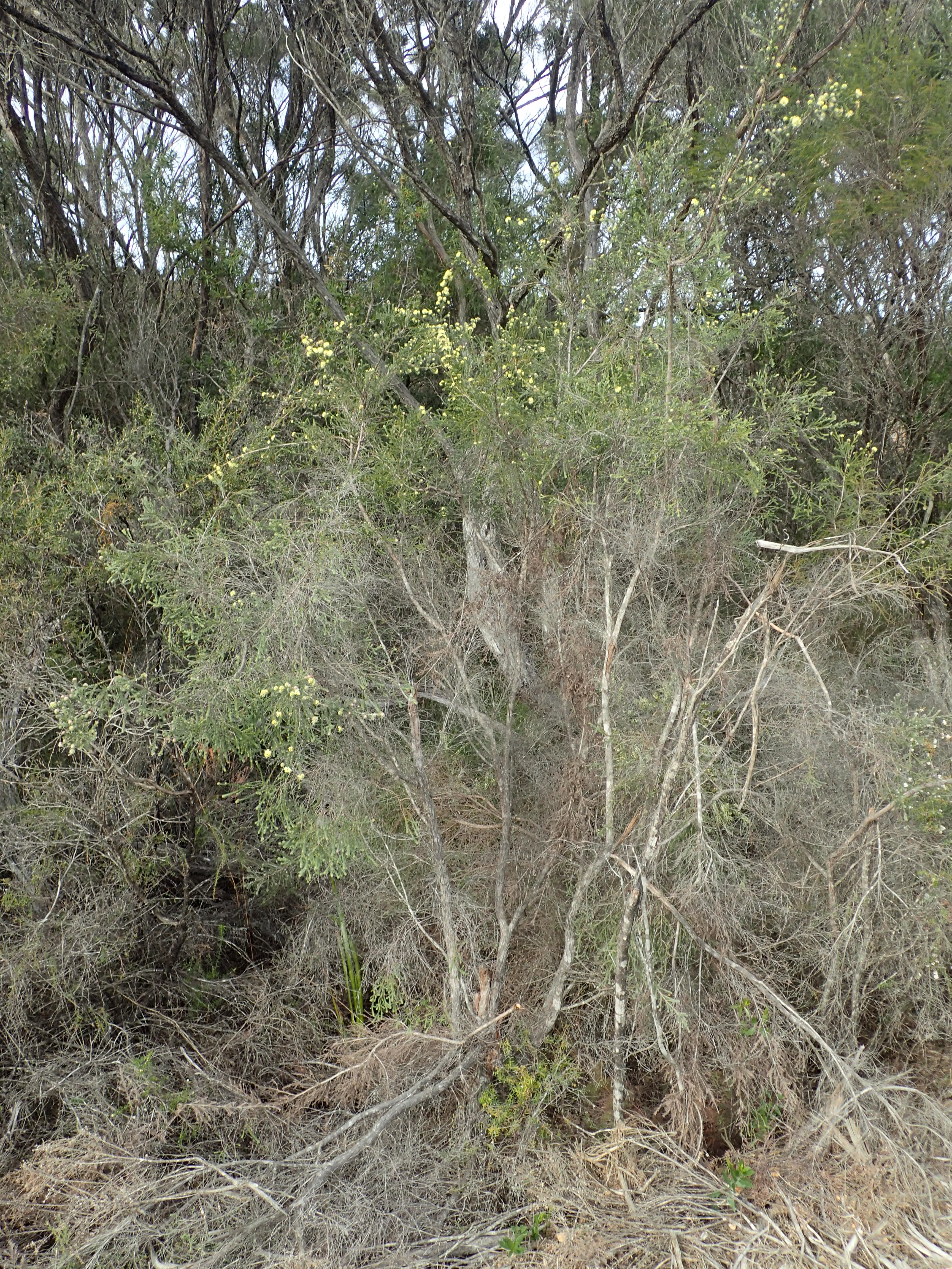 Kunzea clavata growing in the Lake Powell Nature Reserve near Lower Denmark Road, east of Elleker